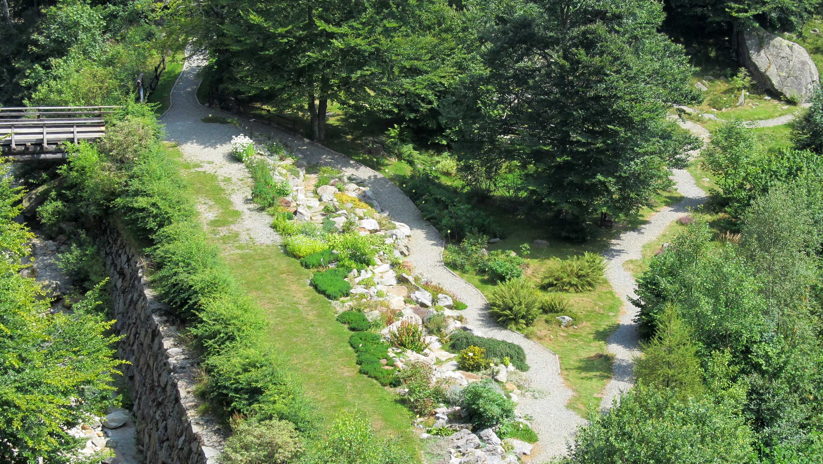 Oropa (Biella, Italy): the WWF botanical garden seen from the Lago del Mucrone cableway